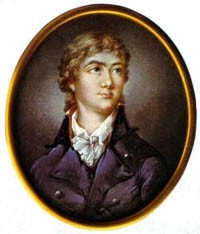 Portrait of Adelbert von Chamisso (1781-1838)